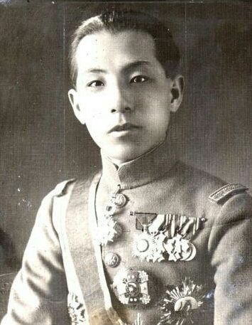 Chang Shueliang, the historical people in China